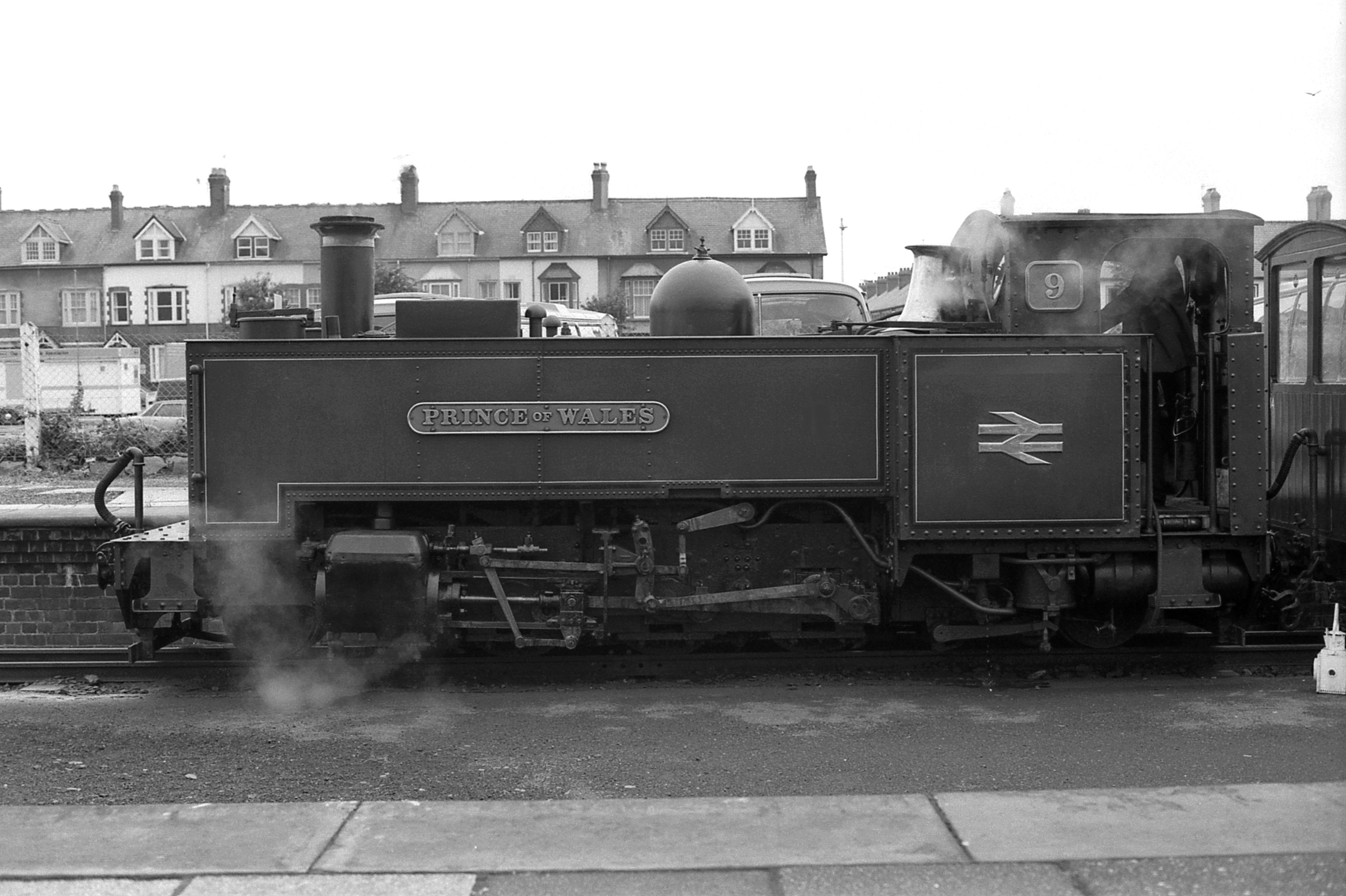 The last operating steam engines working for British Rail portrayed here with the Vale of Rheidol No.9 "Prince of Wales" at Aberystwyth. Camera: Olympus OM1 35mm SLR. Film: Kodak.